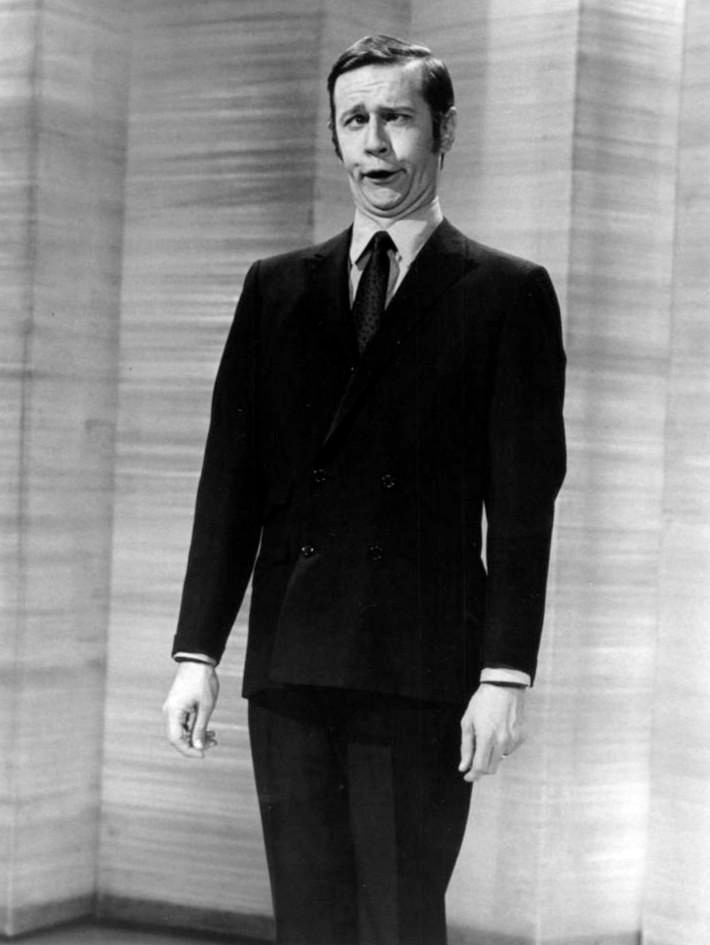 Photo of George Carlin performing on the television program This Is Tom Jones.